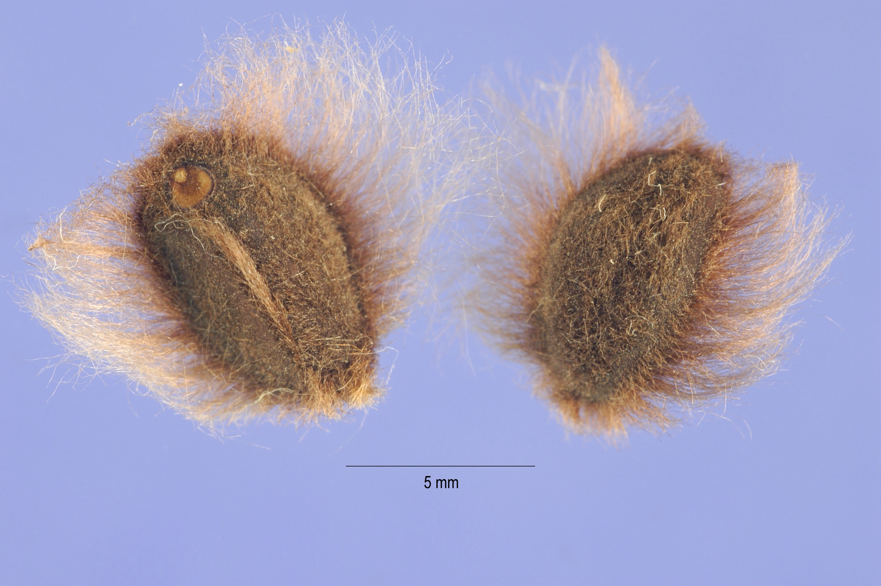 Ipomoea pandurata seeds. Provided by ARS Systematic Botany and Mycology Laboratory. United States, MD, Chain Bridge